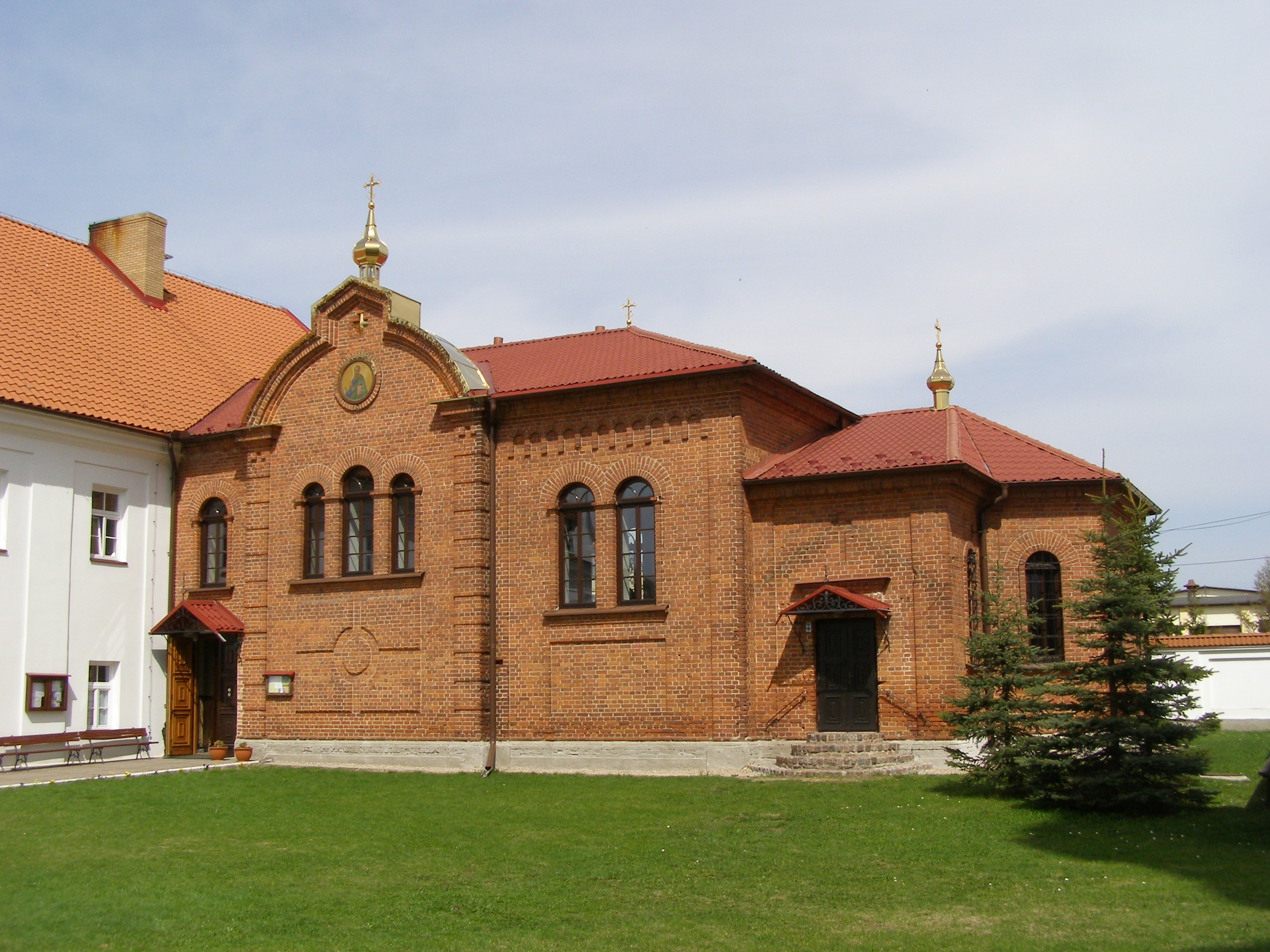 Supraśl - St. John Orthodox church inside the monastery